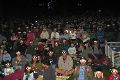 FreeB Film Festival 3D show